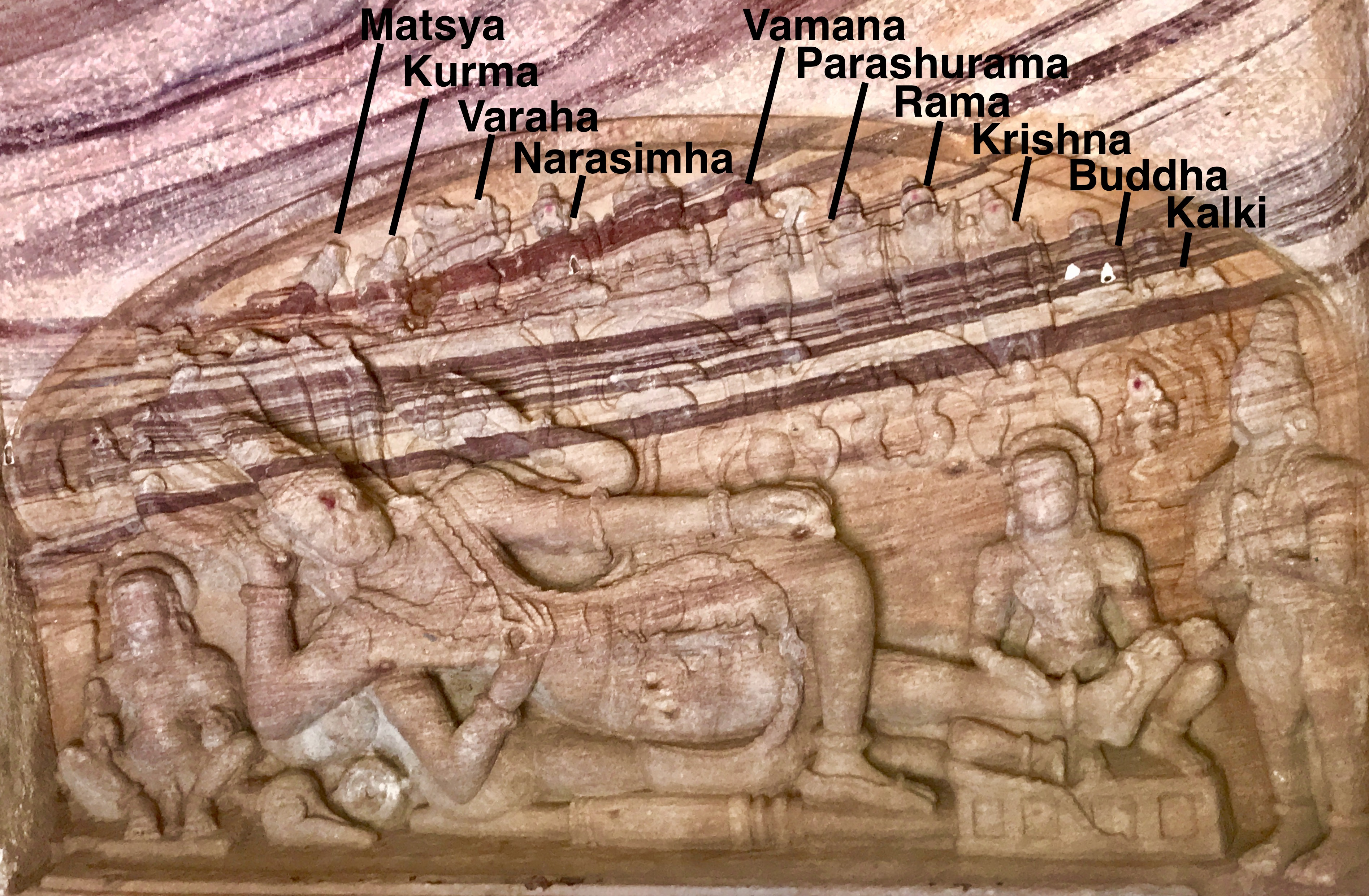 Badami, also mentioned as Vatapi, Vatapipura and Vatapinagari in historical texts, was an important ancient and early medieval era capital. It is the site of the earliest Hindu cave temples whose date can be established with certainty. The earliest cave temple (Cave 3, Vaishnavism) is from the 6th century, with Cave 1 (Shaivism) built shortly thereafter. Cave 2 (Vaishnavism) is dated to the 7th century. Cave 4 features theology and ideas of Jainism, built after the first three. In late medieval era, Tipu Sultan and his Muslim army garrisoned in Badami. The Badami region is home to numerous medieval era Hindu and Jain temples and monuments. It also has artwork in many unnamed or unnumbered caves nearby, around the man made ancient lake. Some of these seem like Buddhist or Hindu or Jain monuments but the syncretic nature of the artwork make them difficult to categorize as belonging to Buddhism or Hinduism.